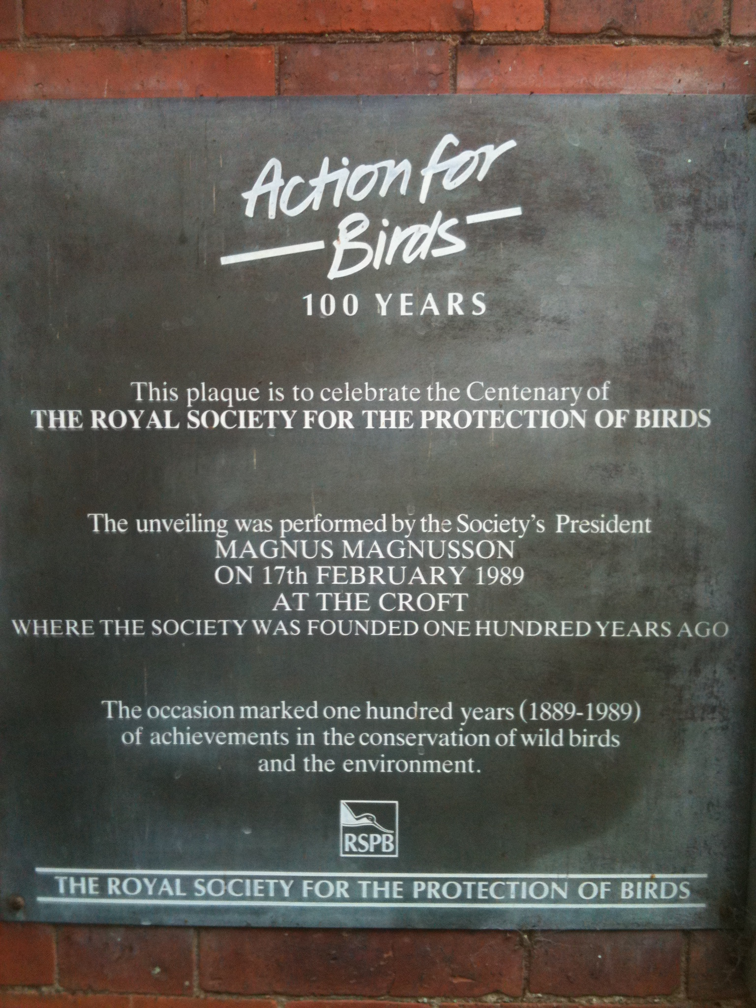 Plaque outside the Croft in Fletcher Moss Botanical Garden, Didsbury, Manchester, location of the foundation of the RSPB